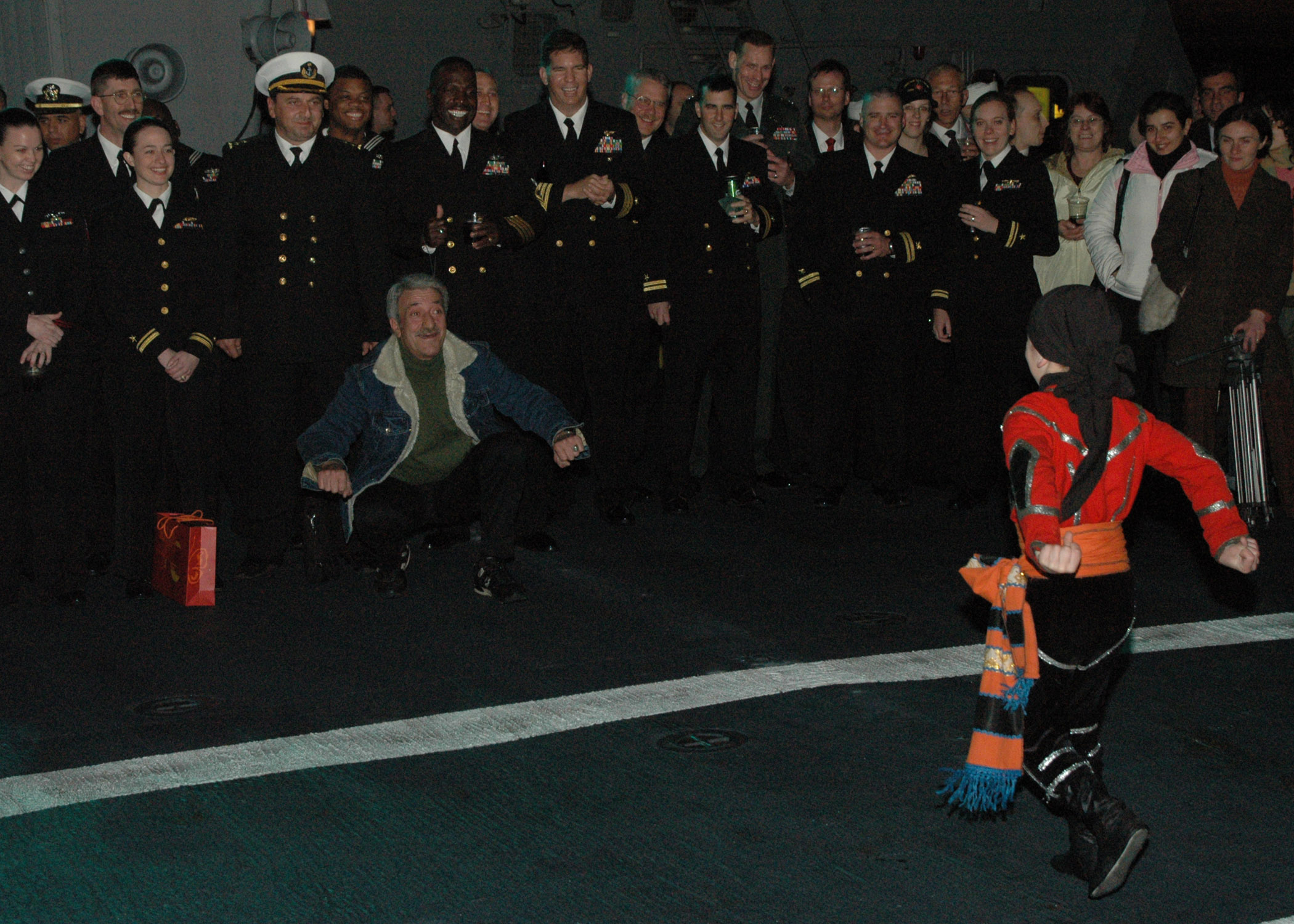 BETUMI, Georgia (April 30, 2007) – Sailors aboard the guided missile destroyer USS The Sullivans (DDG 68) watch local Georgian dancer perform a Khorumi dance. The Sullivans is operating in the 6th Fleet area of responsibility as a part of Commander, Naval Forces Europe-Commander U.S. Sixth Fleet’s strategic priority of improving maritime security and safety. U.S. Navy photo by Mass Communication Specialist 2nd Class Michael S. Campbell (RELEASED)